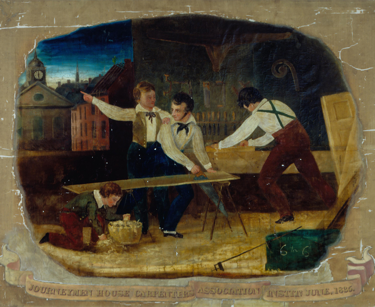 Journeyman House Carpenters' Association of Philadelphia banner promoting the ten-hour day, 1835. A carpenter points to the clock indicating to his co-worker that it is time to quit work.